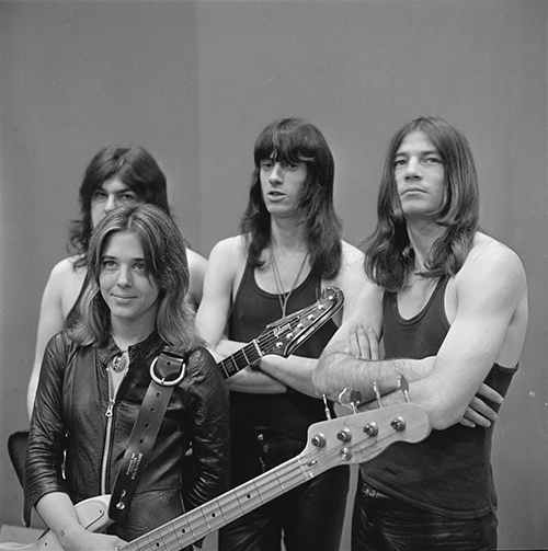 Suzi Quatro in AVRO's TopPop (Dutch television show) in 1973